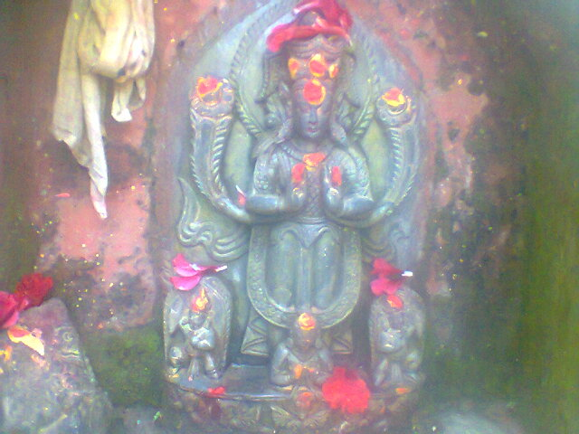 Narayan Mandir